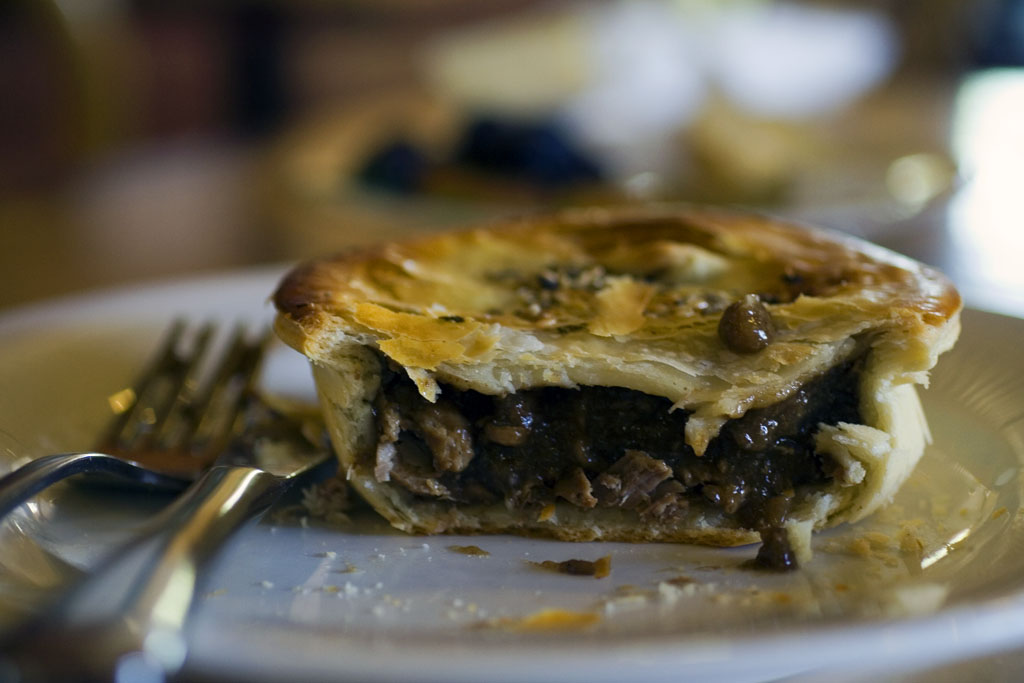 A VERY delicious lamb and rosemary meat pie, at the Milawa Cheese Factory. (from Flickr)